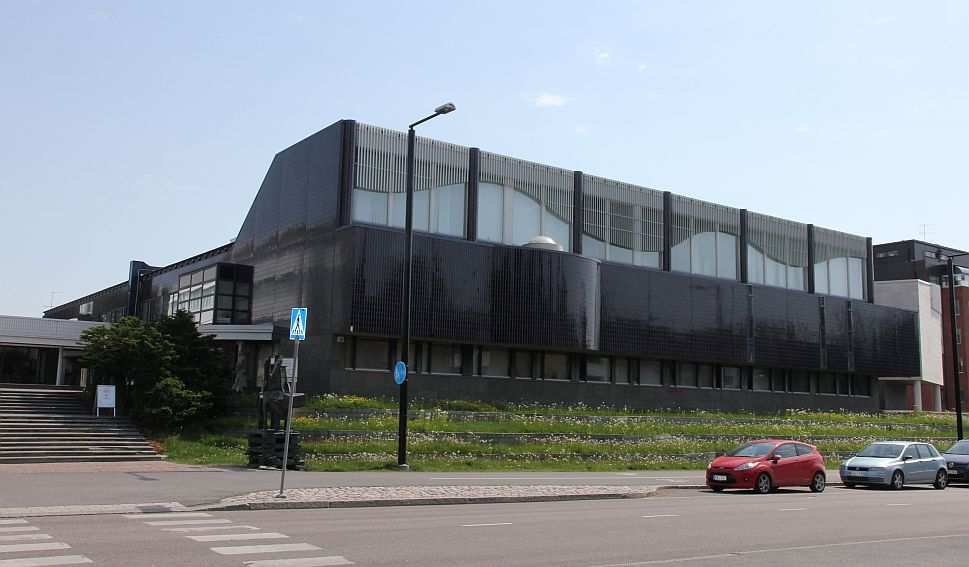 Former Vantaa court house, located in Tikkurila, Vantaa. Home of the Vantaa district court, later named as Itä-Uusimaa district court (until March 2020 when it moved to new address). Next building to the left was the main police station of Itä-Uudenmaa Police (which also moved elsewhere in January 2020). This building will be demolished, e.g. due to indoor air quality problems, and new court / police house is expected to be build in few years.